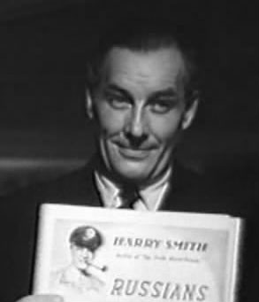 Boris Tenin as Bob Murphy in Russian Question (1947)